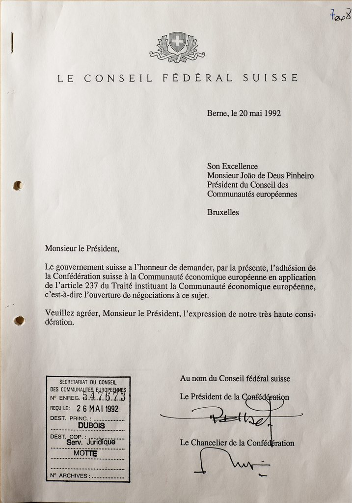 Swiss application of membership in the European Economic Community, later European Union